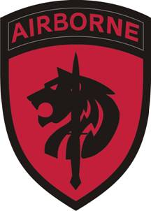 Special Operations Command Africa: United States Army Element Shoulder Sleeve Insignia and Combat Service Identification Badge[1].